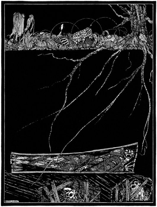 Illustration for Edgar Allan Poe's story "The Premature Burial" by Harry Clarke (1889-1931), published in 1919.